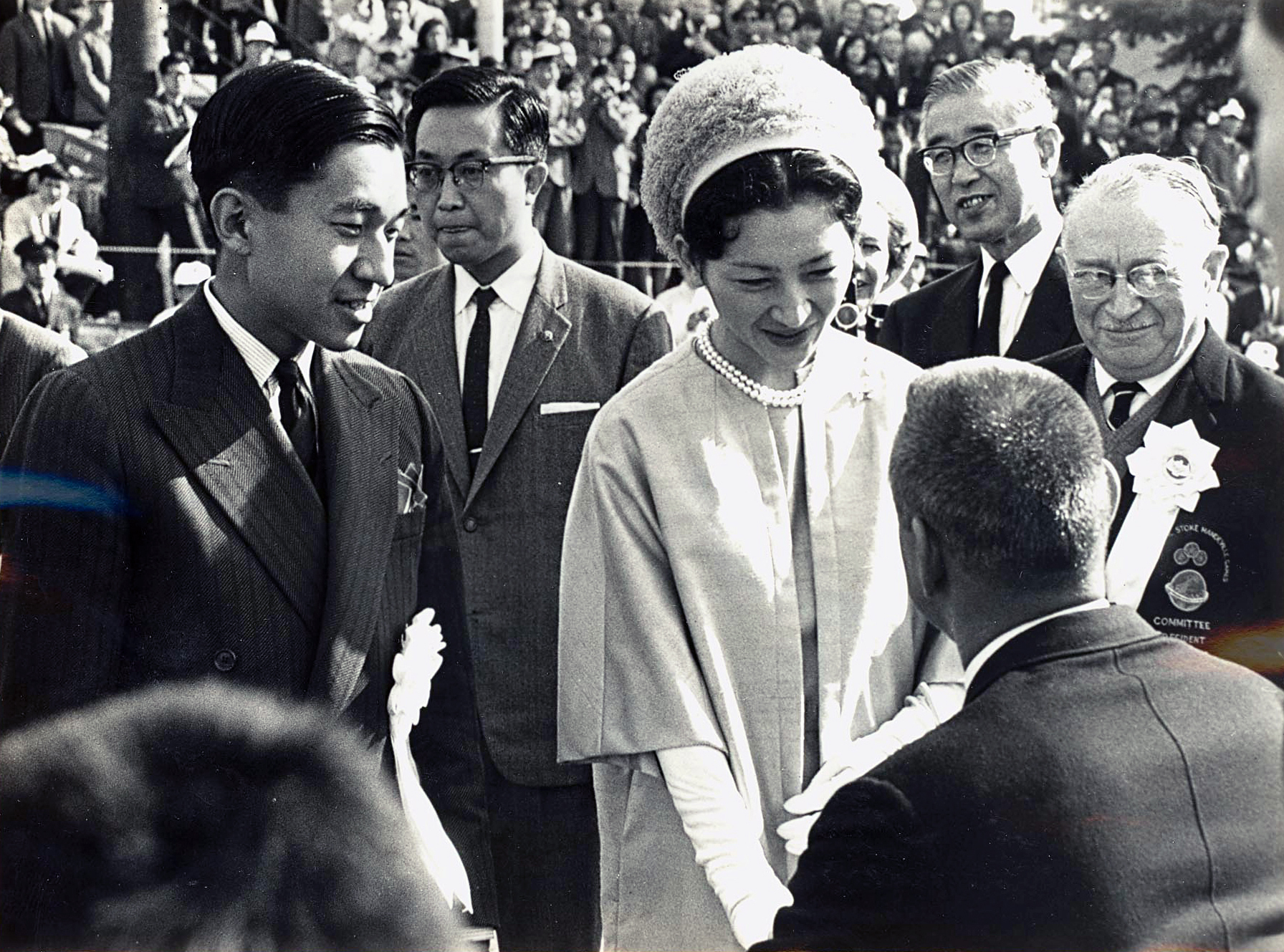 Close up of Crown Prince Akihito and Empress Michiko meeting representatives of teams during the Opening Ceremony of the 1964 Tokyo Paralympic Games. Paralympic founder Ludwig Guttmann is in the background.